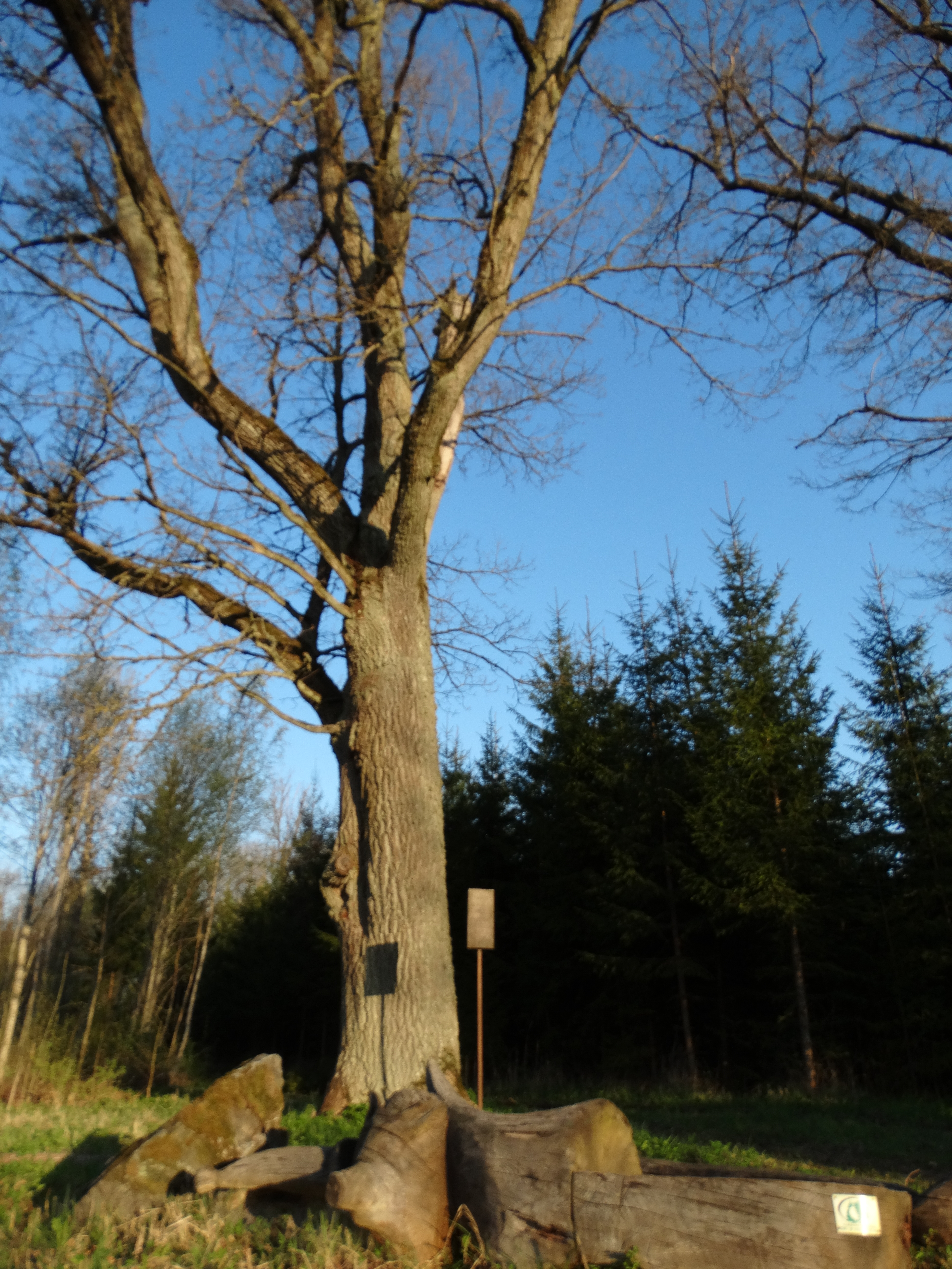 Radviloniai Forest Oak, Radviliškis District, Lithuania